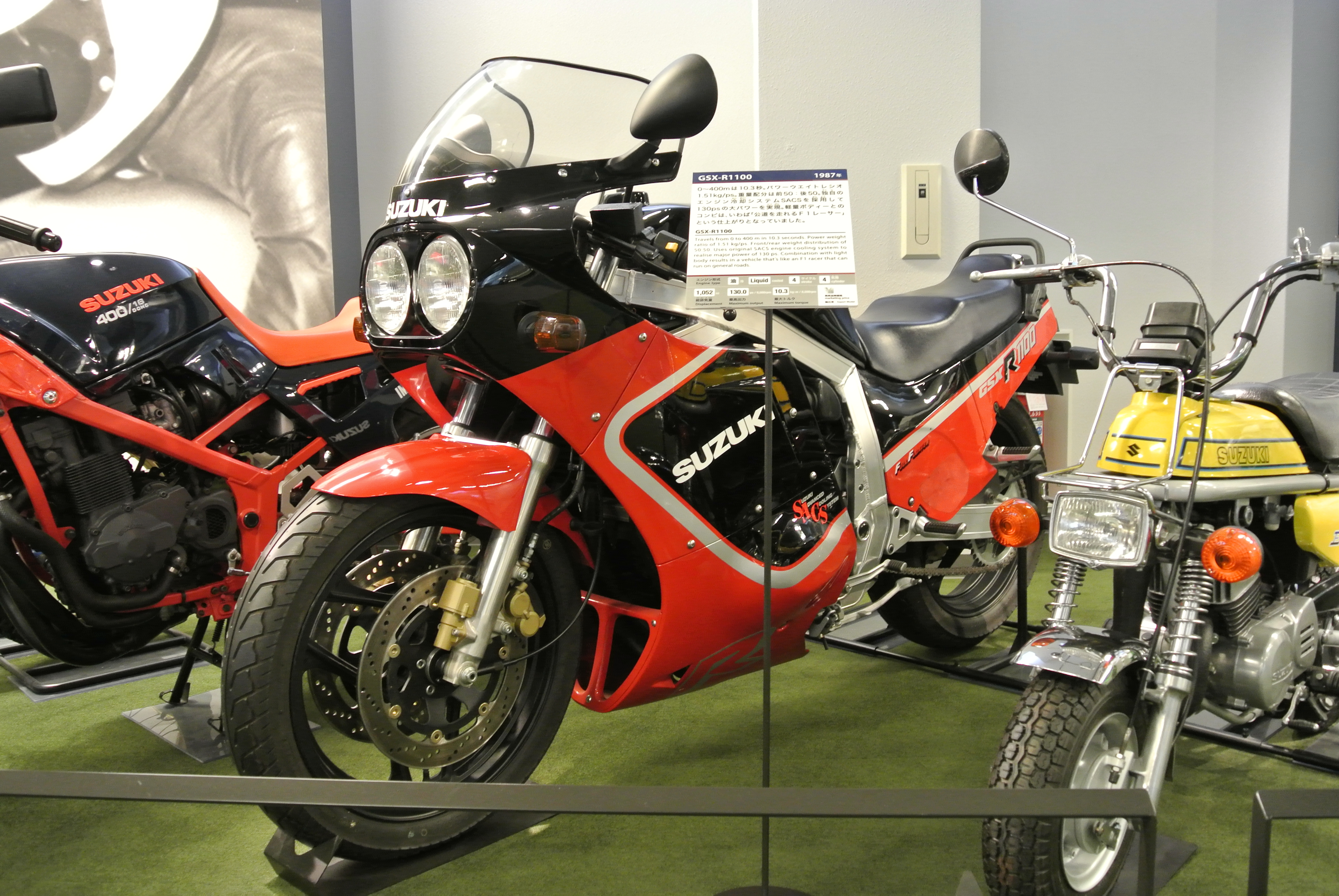 1987 GSX-R1100 in the Suzuki History Museum.